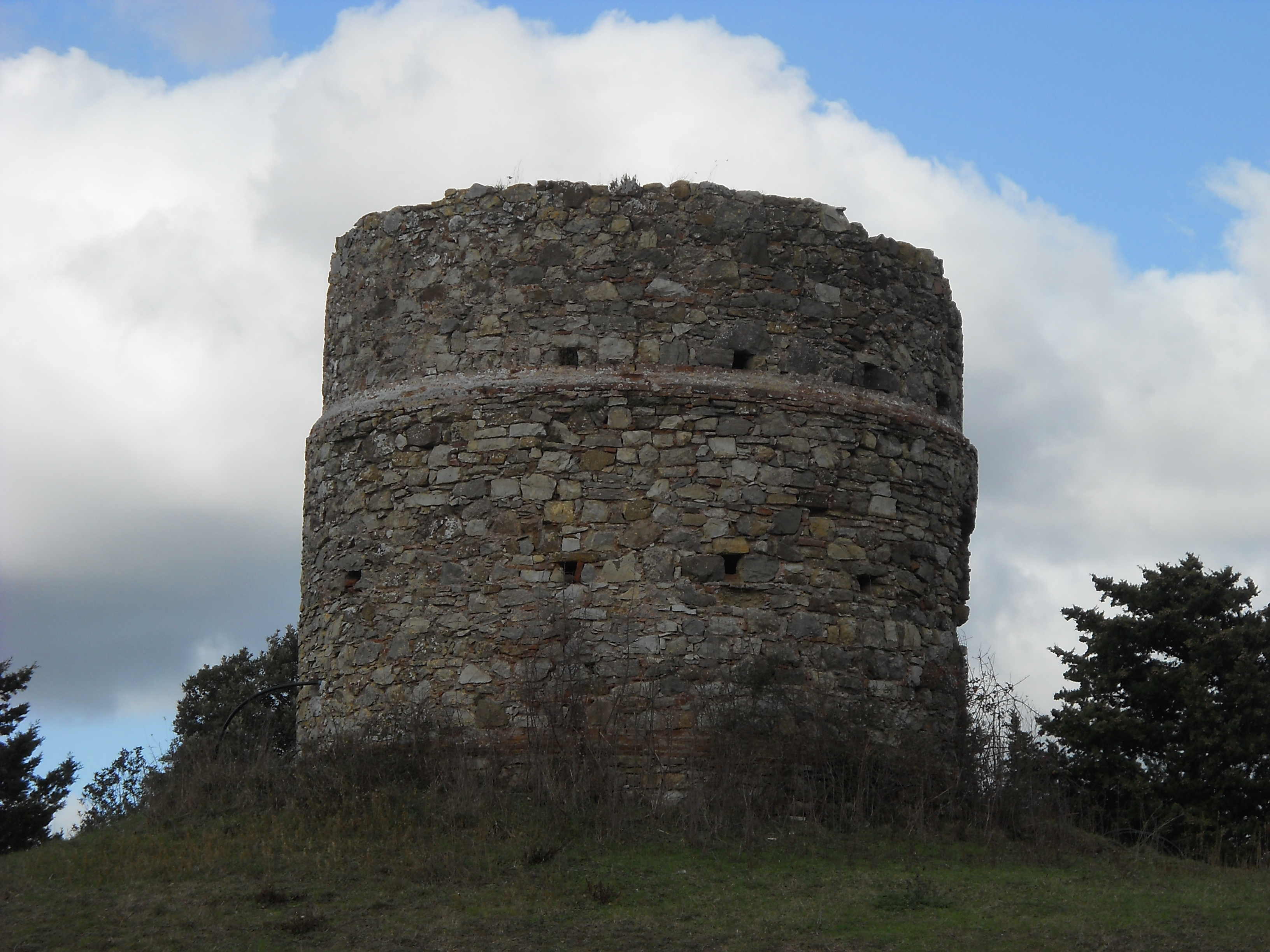 Old windmill, Valle Benedetta, Livorno, Italy